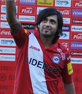 Pisculichi returning to La Paternal